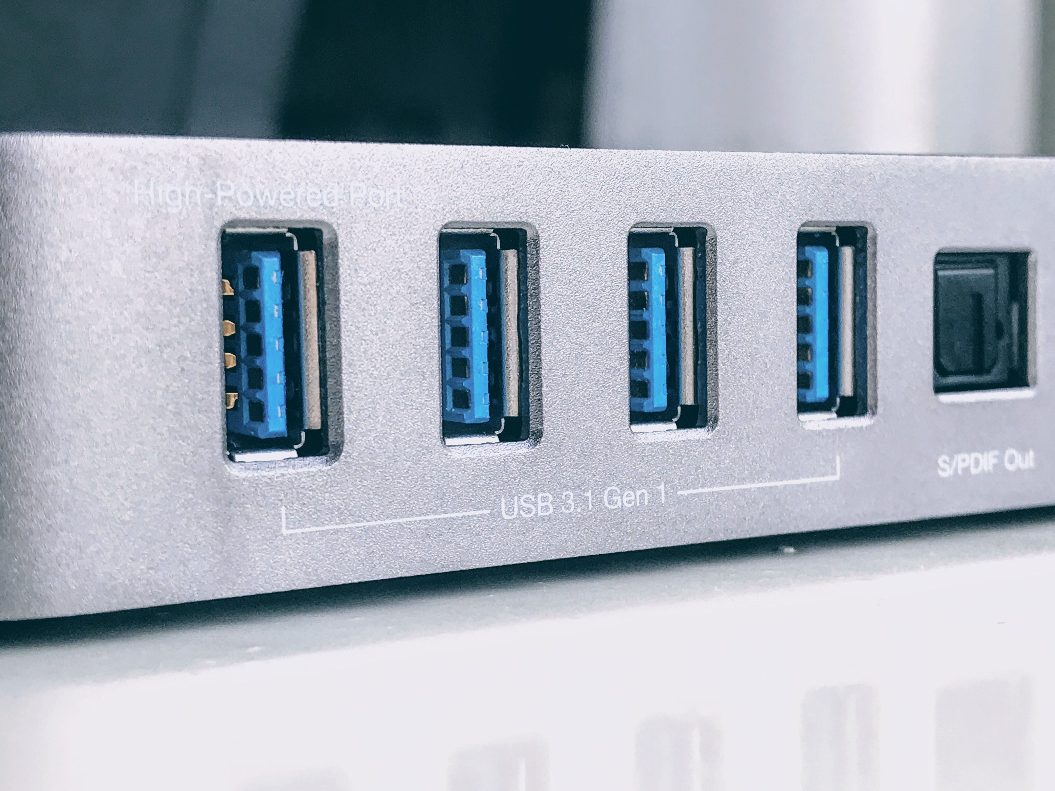 USB-A 3.1 Gen 1 ports